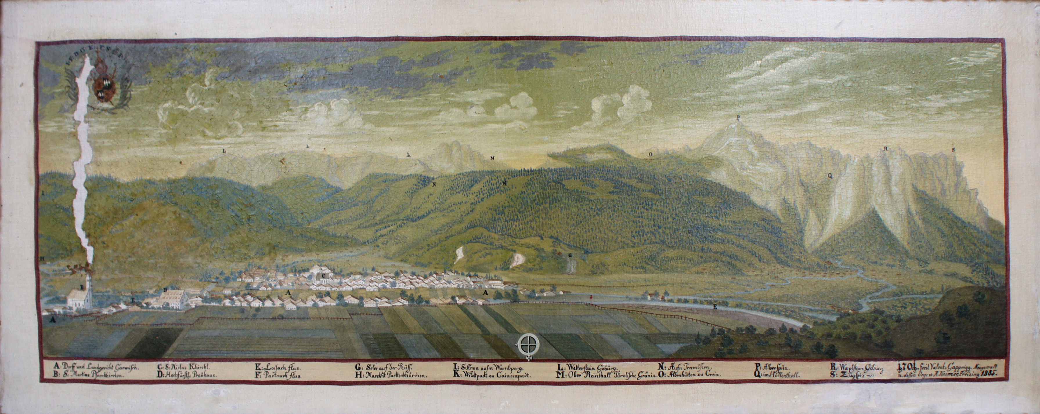 View of Garmisch, now Garmisch-Partenkirchen, Bavaria. Part of a series of 32 paintings executed by Valentin Gappnigg between 1698 and 1702. Gappnigg had been commissioned by the prince-bishop of Freising, Johann Franz Eckher von Kapfing und Liechteneck, to paint views of the various possessions of the prince-bishopric. While the core territories of Freising were located in Bavaria, it also included several far-flung enclaves located inside Tyrol, Styria, Carinthia, Lower Austria and Carniola (now Slovenia).